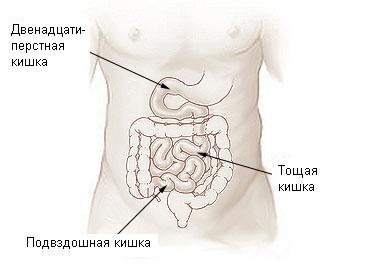 Small intestine. Source image file File:Illu_small_intestine.jpg. Translated into Russian graffiti images.